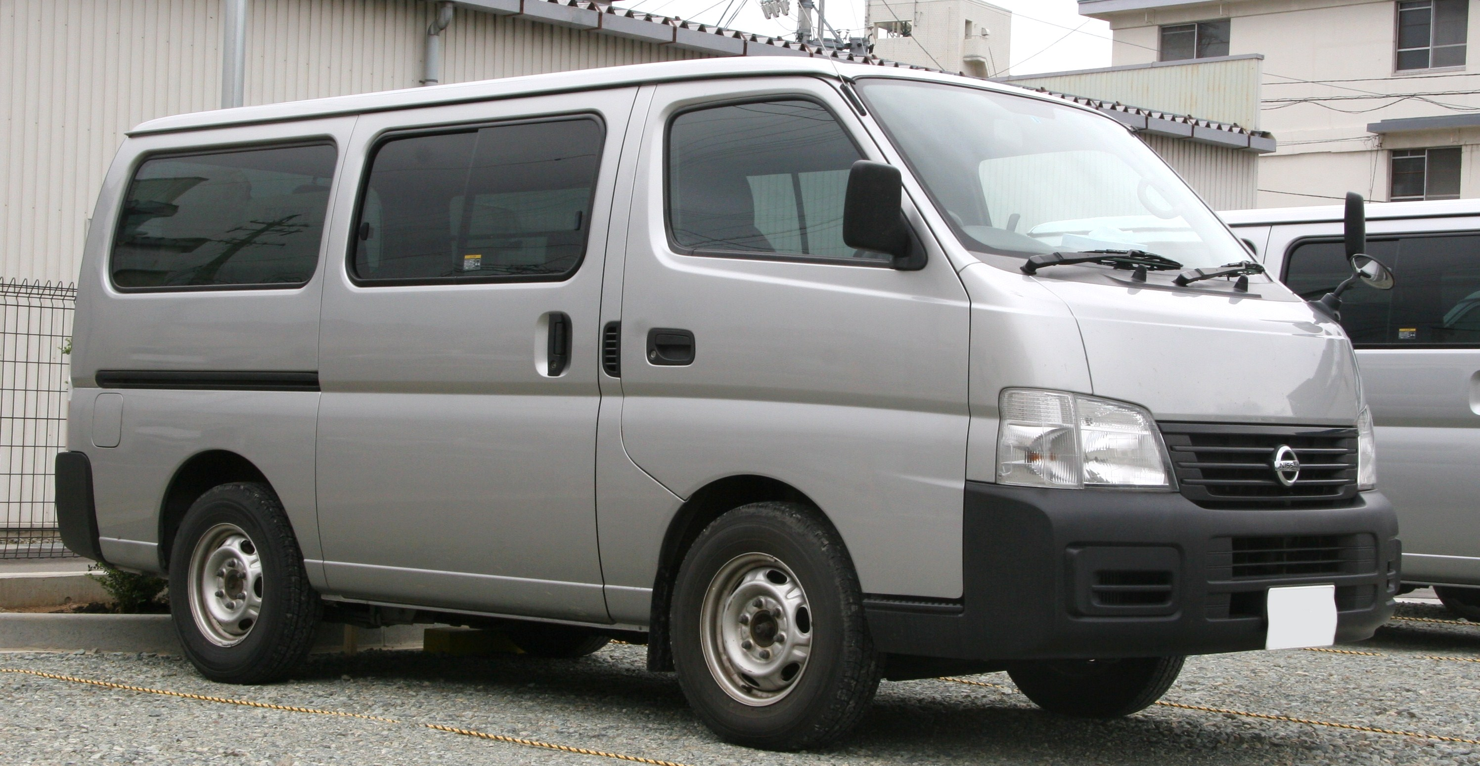 NISSAN CARAVAN